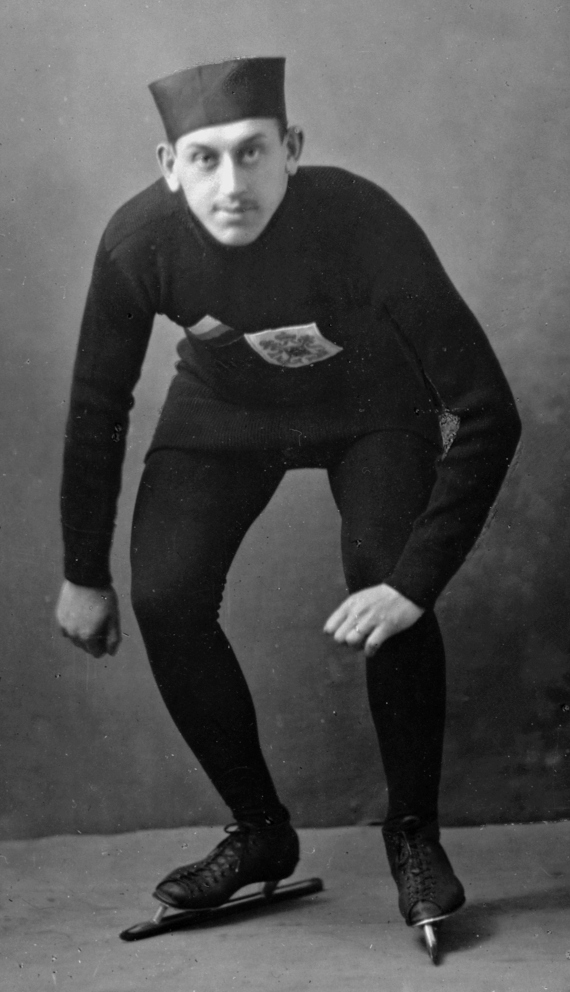 Nikita Naidenov at the 1913 World Speedskating Championships in Helsinki